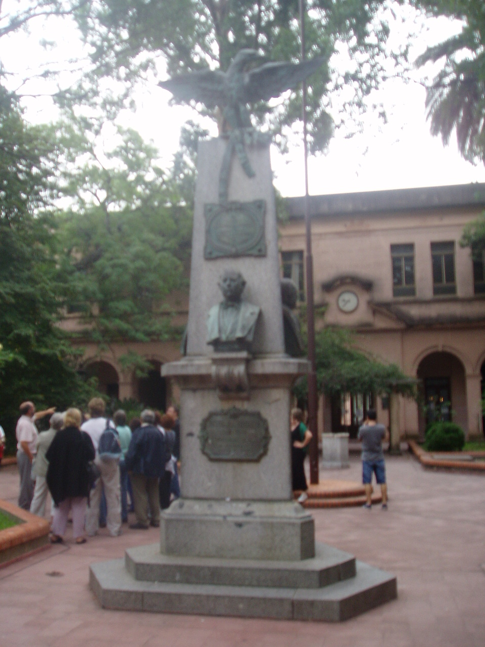 Tríptico, made by Lucio Correa Morales in 1898, in the Colegio del Uruguay, in Concepción del Uruguay, Argentina. '